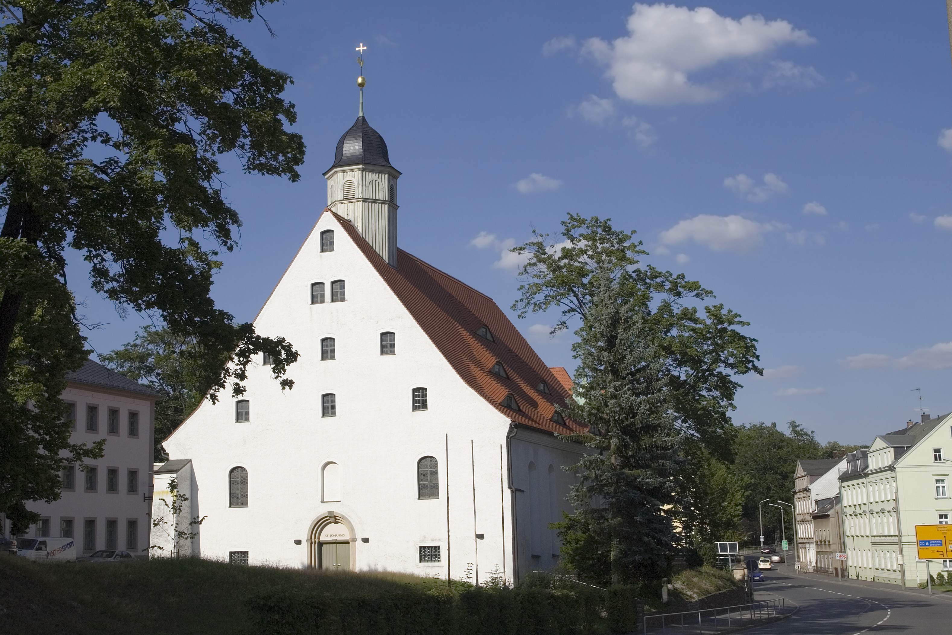 Freiberg, Saxony, catholic church St. Johannis